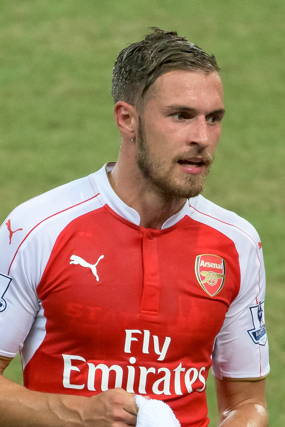 Aaron Ramsey before Arsenal vs Everton at the 2015 Barclay Premier League Asia Trophy in Singapore